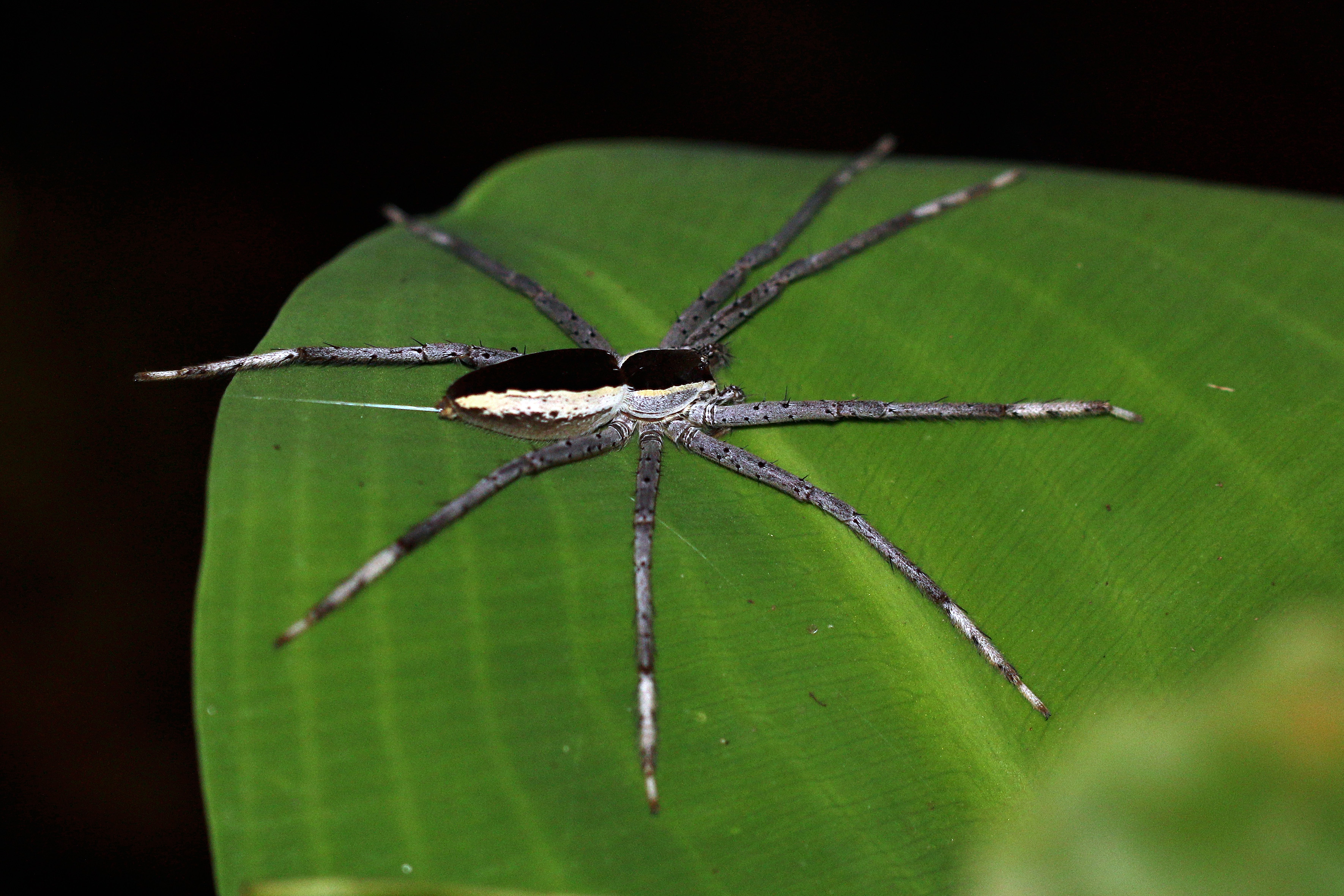 Nursery web spider (Nilus albocinctus) female, Sabah, Borneo